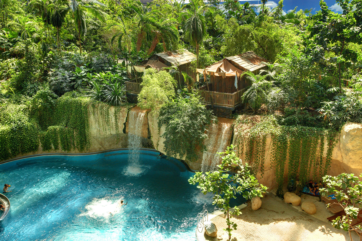 Tropical Islands Lodge